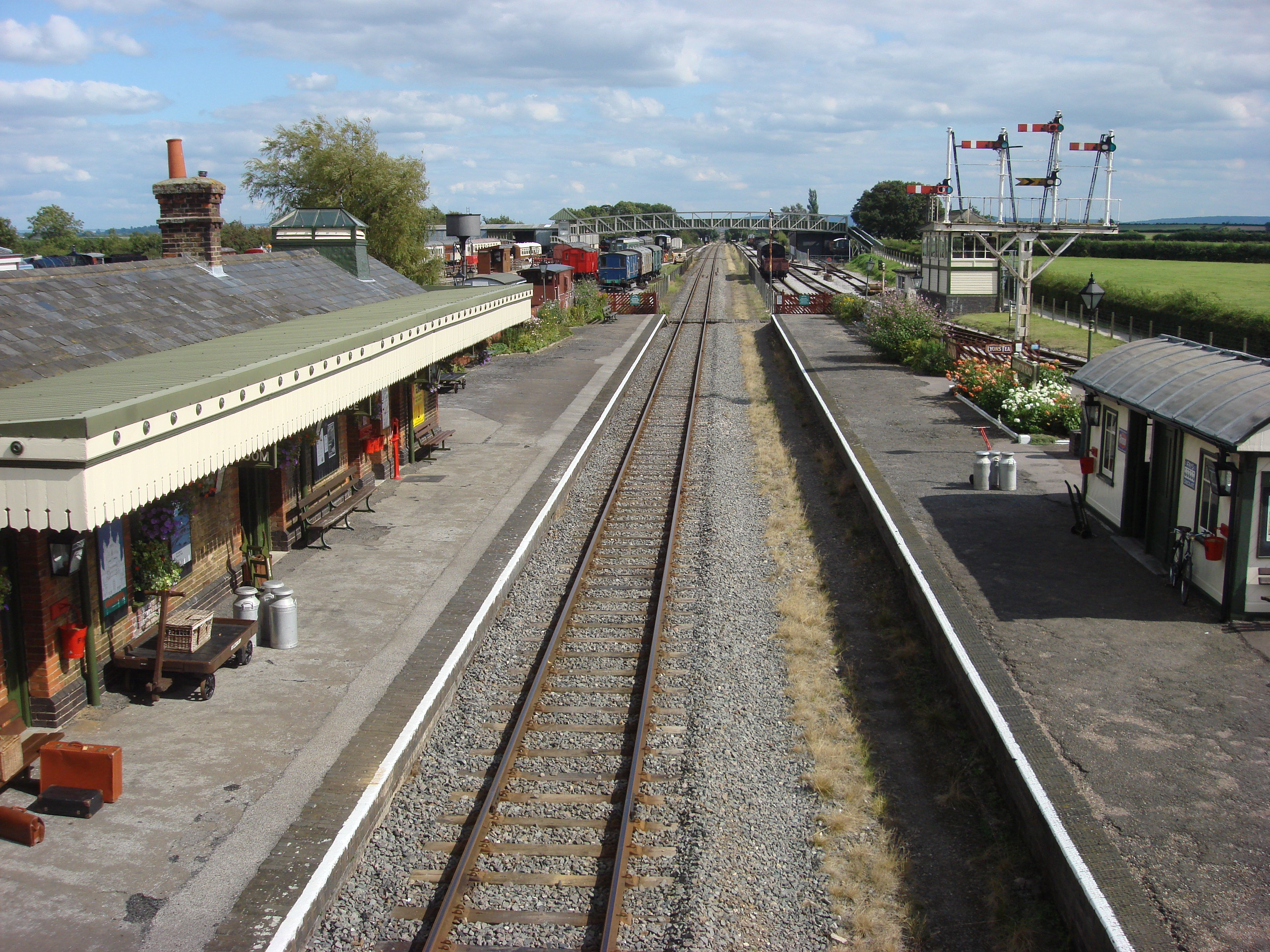 Quainton Road Railway Station, Buckinghamshire